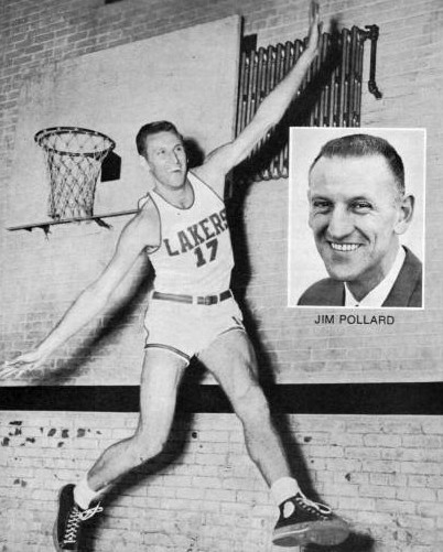 Professional basketball player Jim Pollard